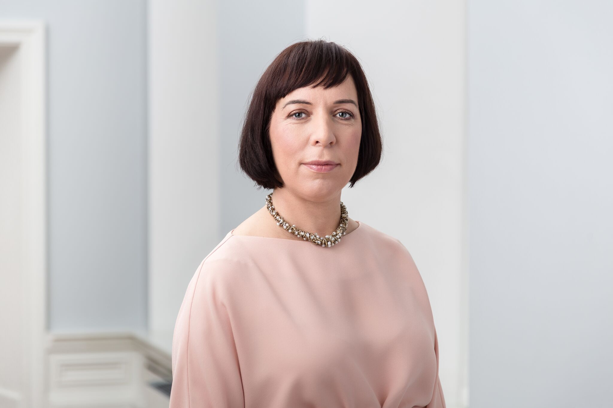 Mailis Reps